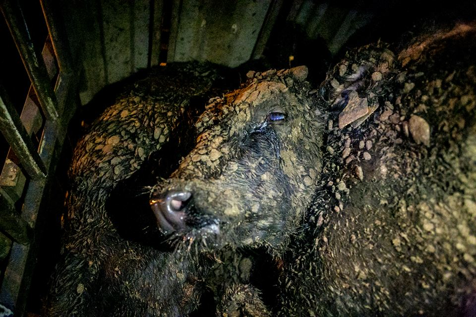 Calves for meat from Portugal arrived at Ashdod port in Israel after being stuck at seat for 26 days. covered in feces and some blinded by the ammonia fumes